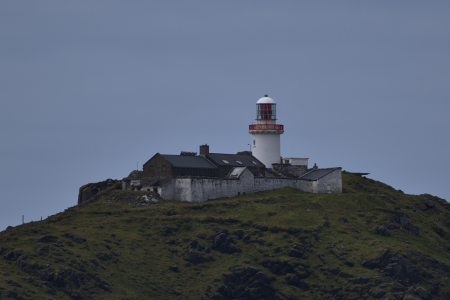 Blackrock Lighthouse, County Mayo